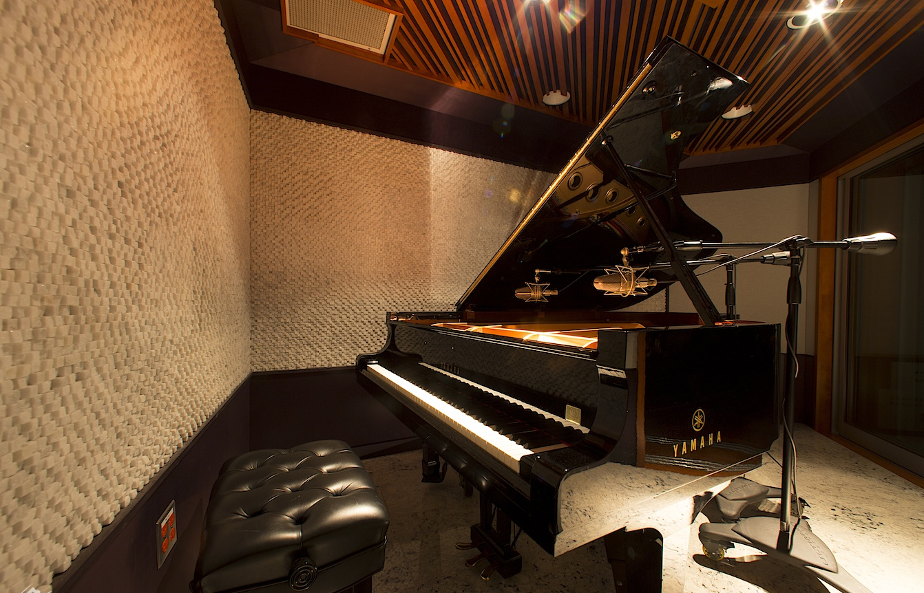 Studio A, our large-tracking room at Audio Mix House, Las Vegas, NV